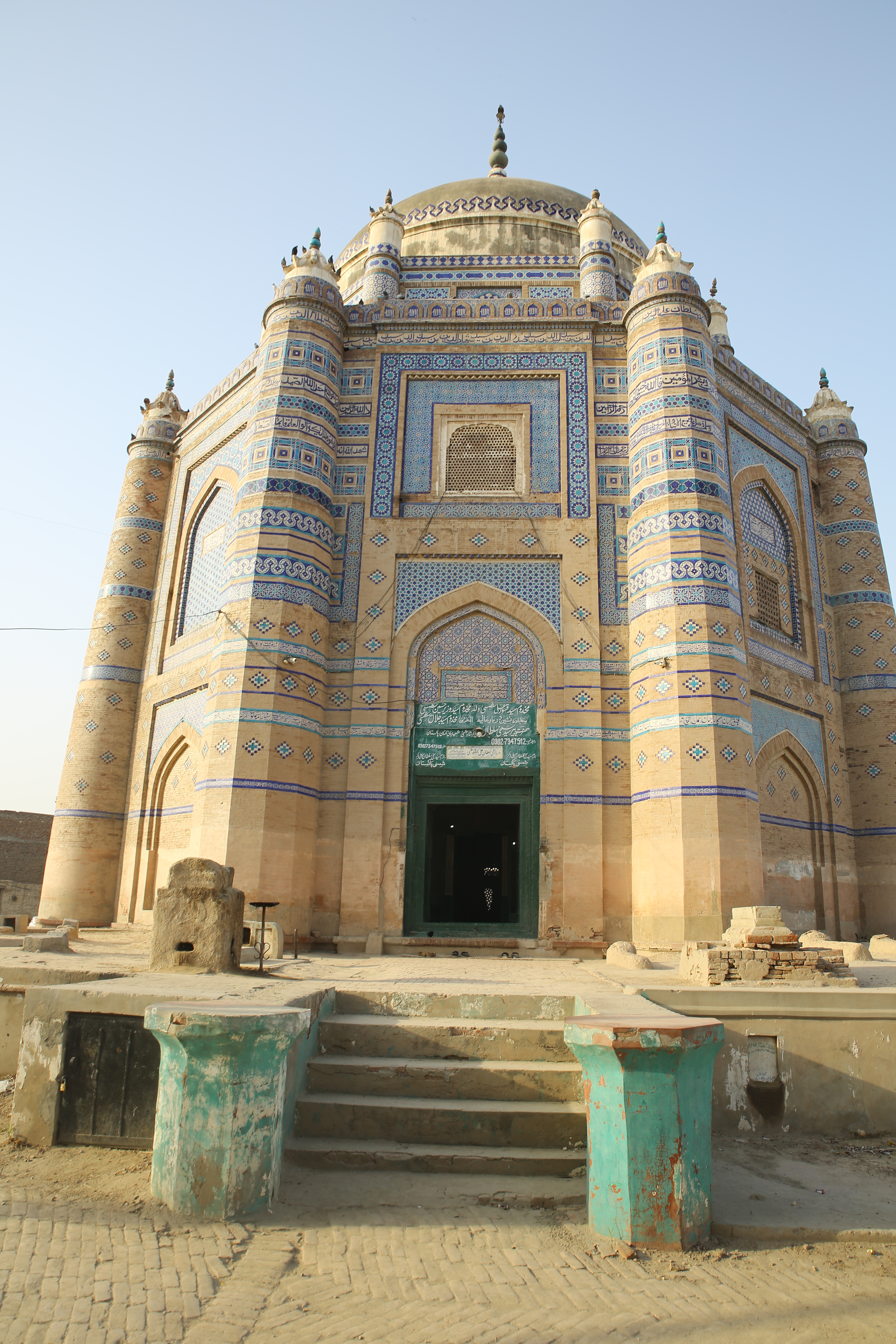 Tomb of Shah Ali Akbar and nearby mosque This is a photo of a monument in Pakistan identified as the PB-108